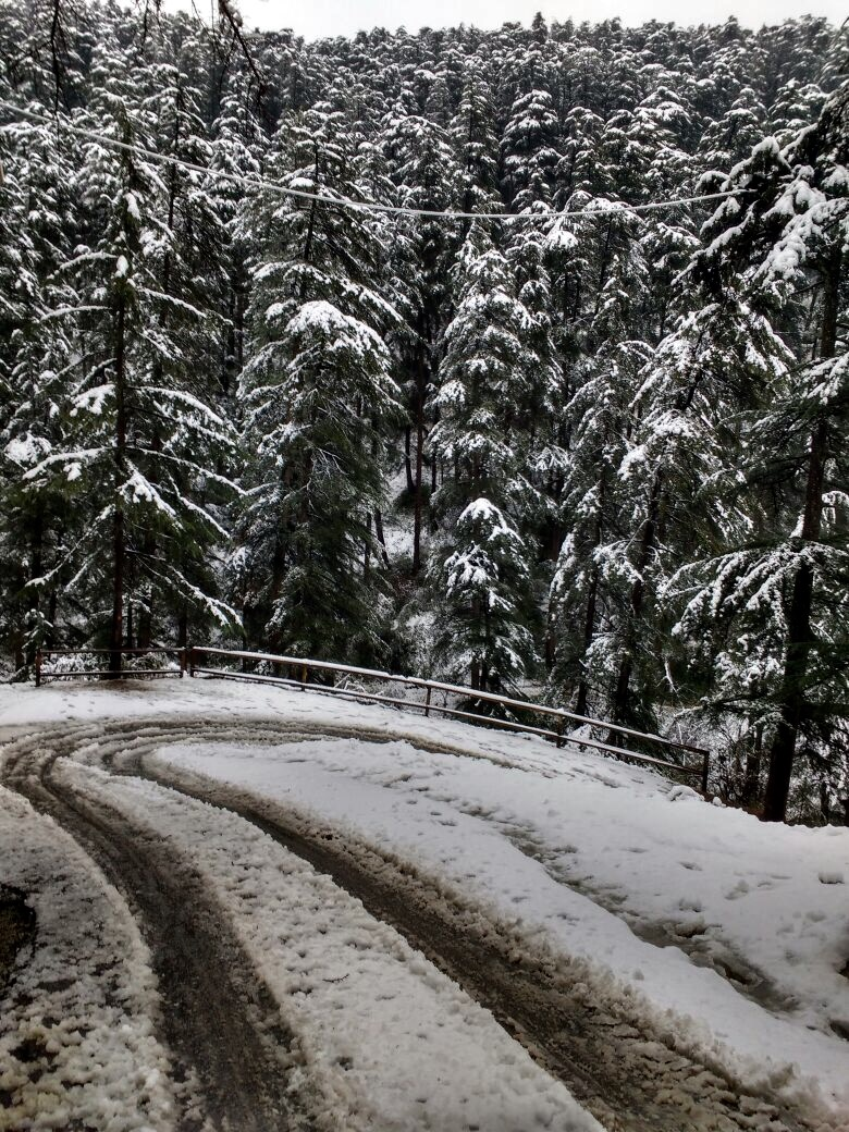 Rohru is easily accessible in all seasons.